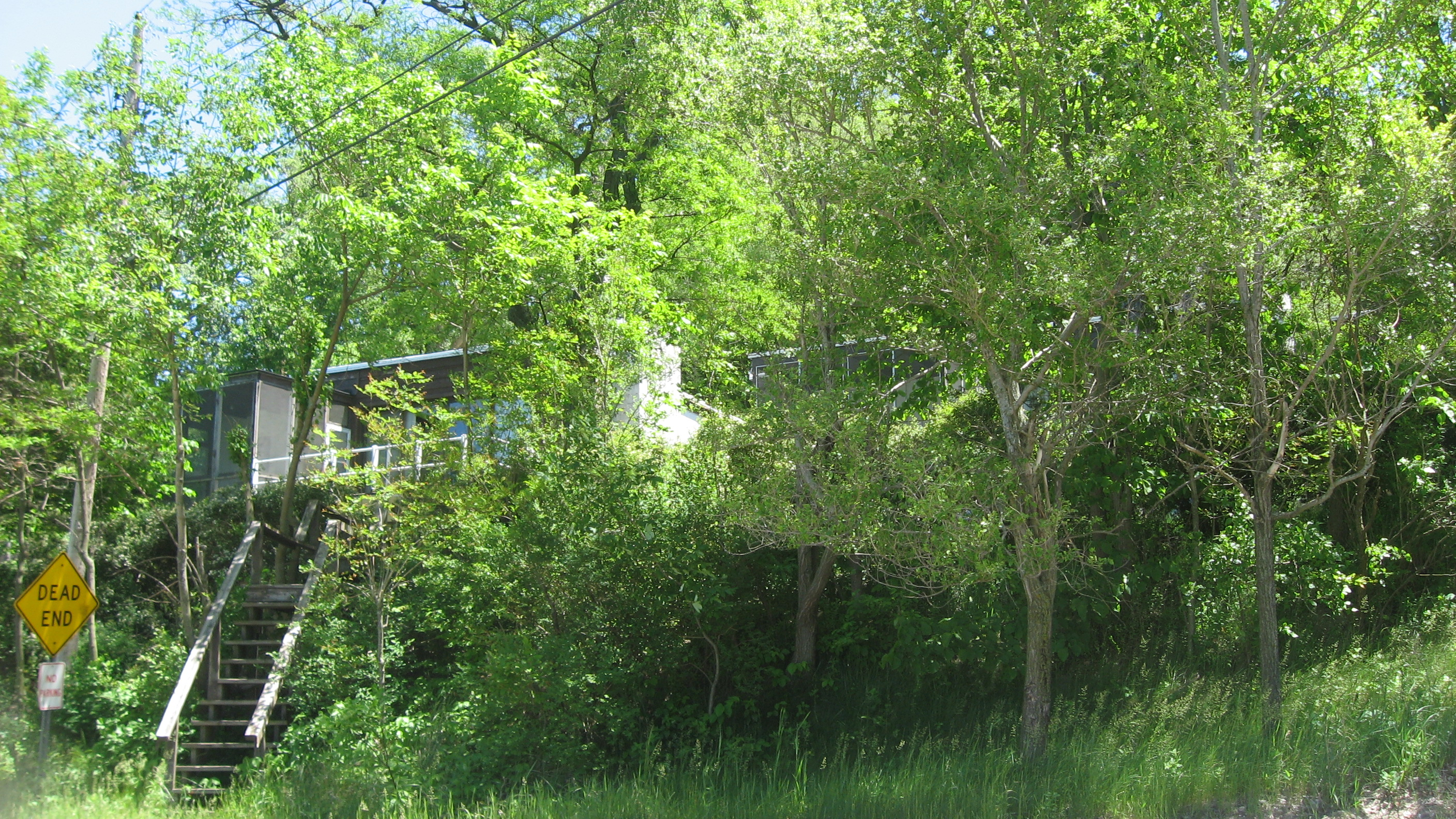 Looking up toward two of the houses in the Solomon Enclave, located at 901-907 Lake Shore Drive in Beverly Shores, Indiana, United States. The entire property, including the 1948-built houses, is listed on the National Register of Historic Places.